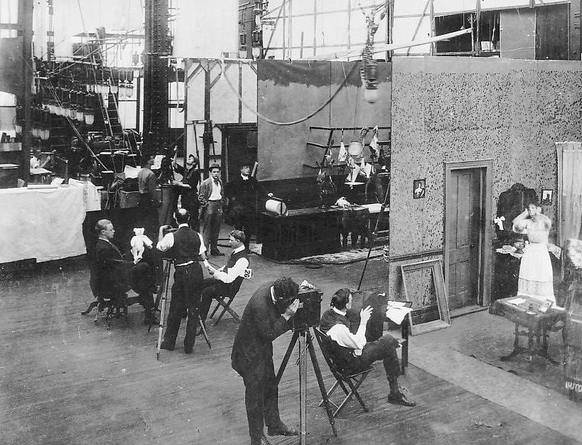 Edison Motion Picture Studio in the Bronx, New York City, circa 1907–1918. Several productions are in progress.